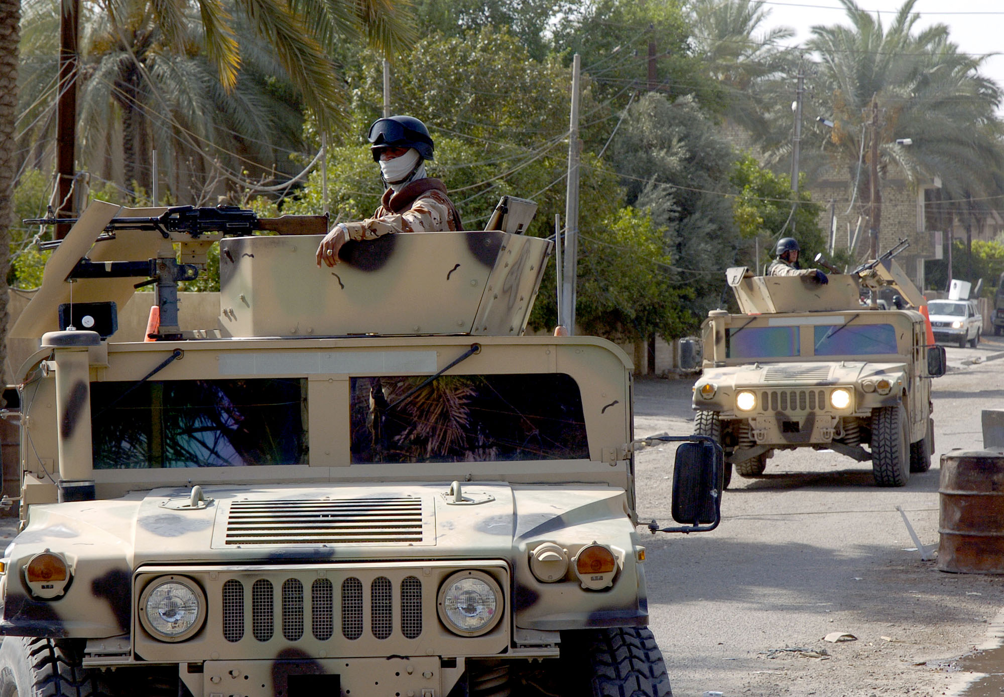 Iraqi army soldiers move into a neighborhood to set up road blocks in Baghdad, Iraq, Aug. 13, 2006.